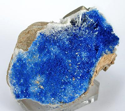 Azurite, Gypsum Locality: Buda Rock, Ray Mine, Pinal Co., Arizona Size: small cabinet, 7.6 x 7.2 x 5.9 cm Azurite on Selenite This beautiful and unusual specimen has a core of glassy and colorless gypsum crystals up to 1 cm in length. A druse of royal blue azurite, to .5 cm in length is on the smaller gypsum crystals and included within the larger ones, giving the whole specimen a wonderful color contrast. I have seen this material over the years, in trickles to the market. Never have I seen one of this size, quality, and overall showiness.It is, to me, a unique and interesting azurite occurrence in a combination that is for some reason simply almost never seen. Out of all the specimens of this material I have sene over the years, this one floored me for its overall quality and impact.